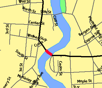 Location map showing Walden Veterans' Memorial Bridge. Created here on U.S. Census Bureau's TIGER site. Red highlight added.